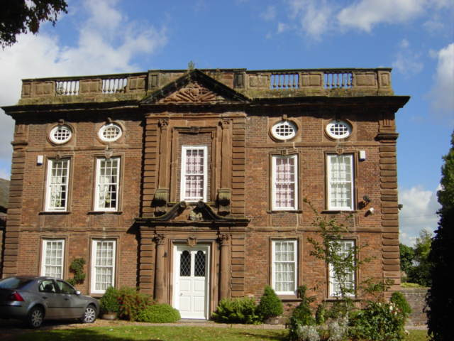 Hale House, Hale Village Also known as the Manor House, this large house was originally a parsonage. It has a facade of local sandstone, added in the 18th century, which hides two brick built houses, the gable of one dates back to the 17th century. It is situated near St Mary's church and was the first house in Lancashire to have sash windows.